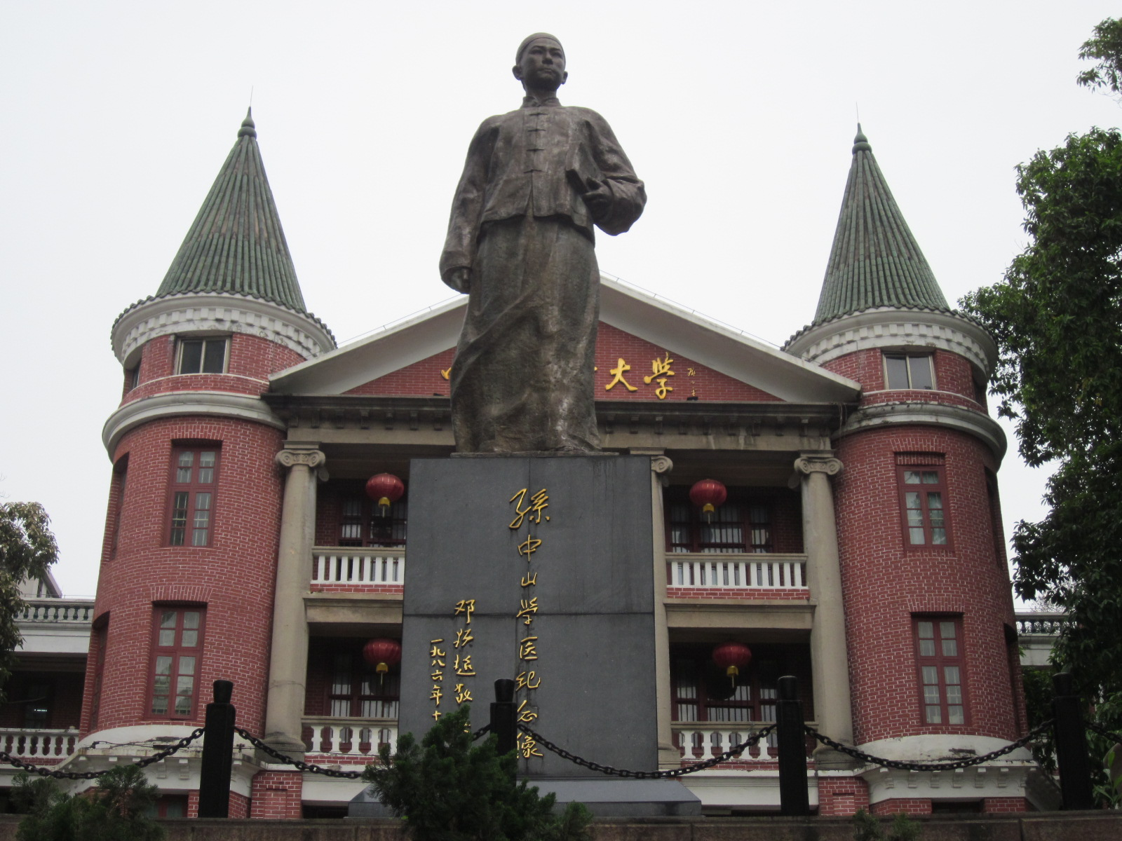 Zhongshan School of Medicine, Sun Yat-sen University